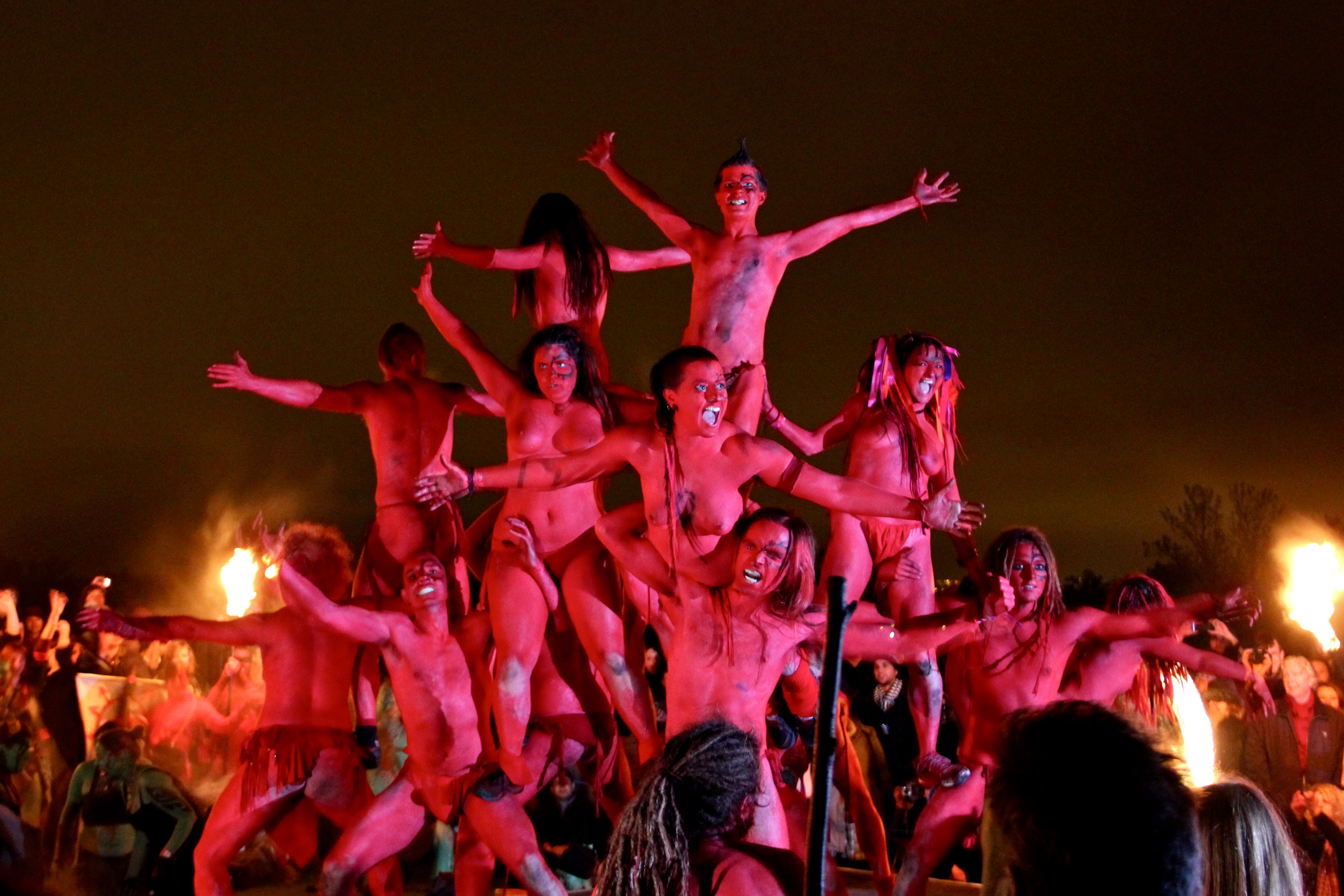 2012 Beltane Fire Festival - The Red Beastie Drummers - on Calton Hill, Edinburgh, Scotland